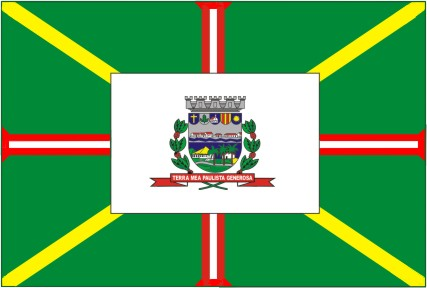 Flag of the town of Mococa (São Paulo, Brazil).